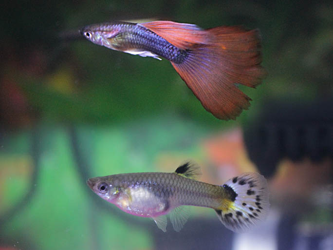 Male and female guppies.